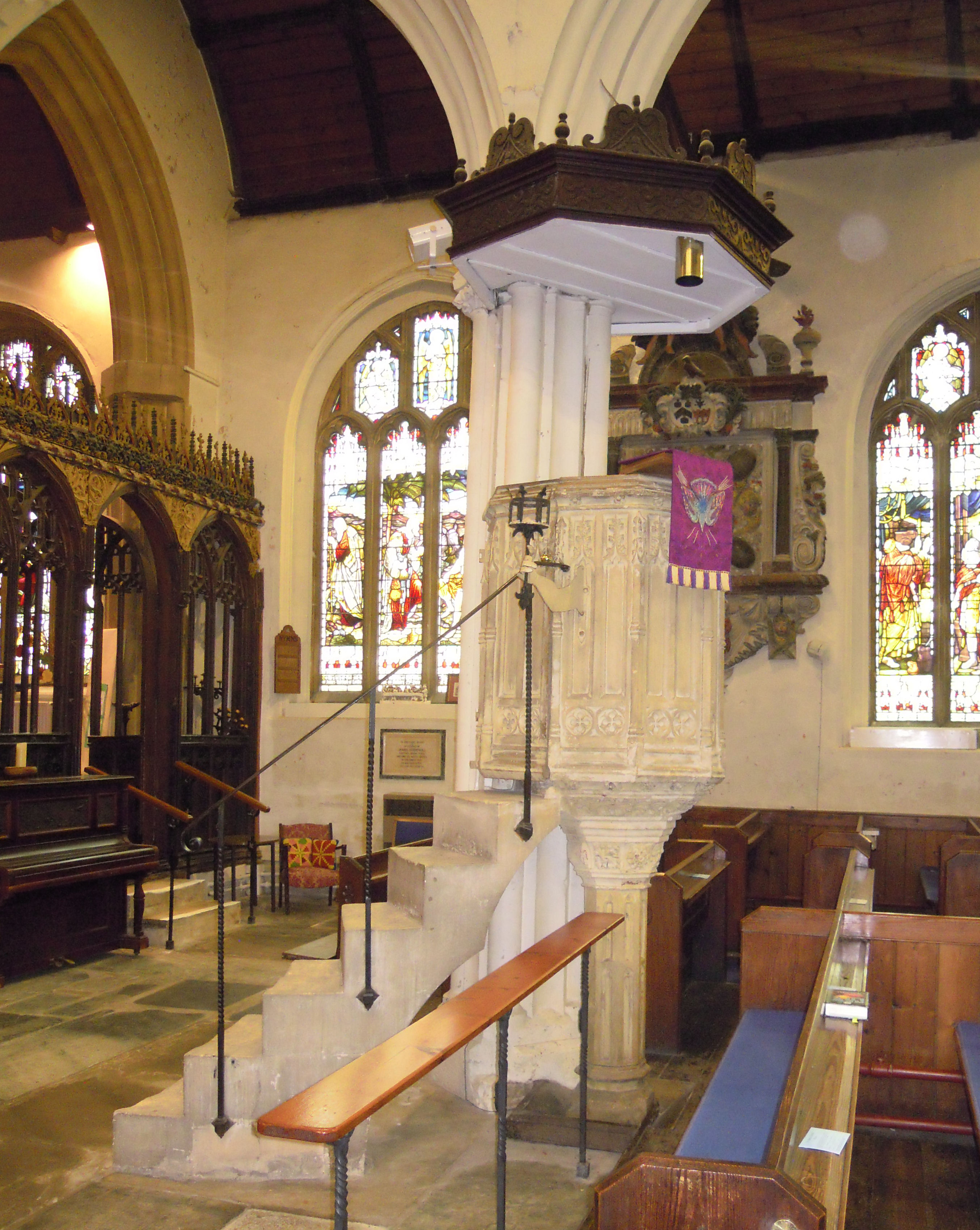 The 16th-century pulpit in the Church of St Mary the Virgin in Pilton in Barnstaple, Devon